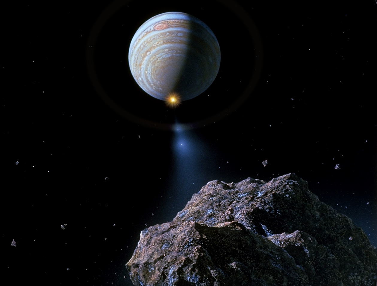 Artist's impression of the Comet Shoemaker-Levy 9 in its 2004 collision approach with Jupiter. Artist's description: "The view from a fragment of the Shoemaker / Levy 9 comet which fell into Jupiter piece by piece over several days in Late July 1994, around the 25th anniversary of Apollo 11. Acrylic on board for NASA Ames."